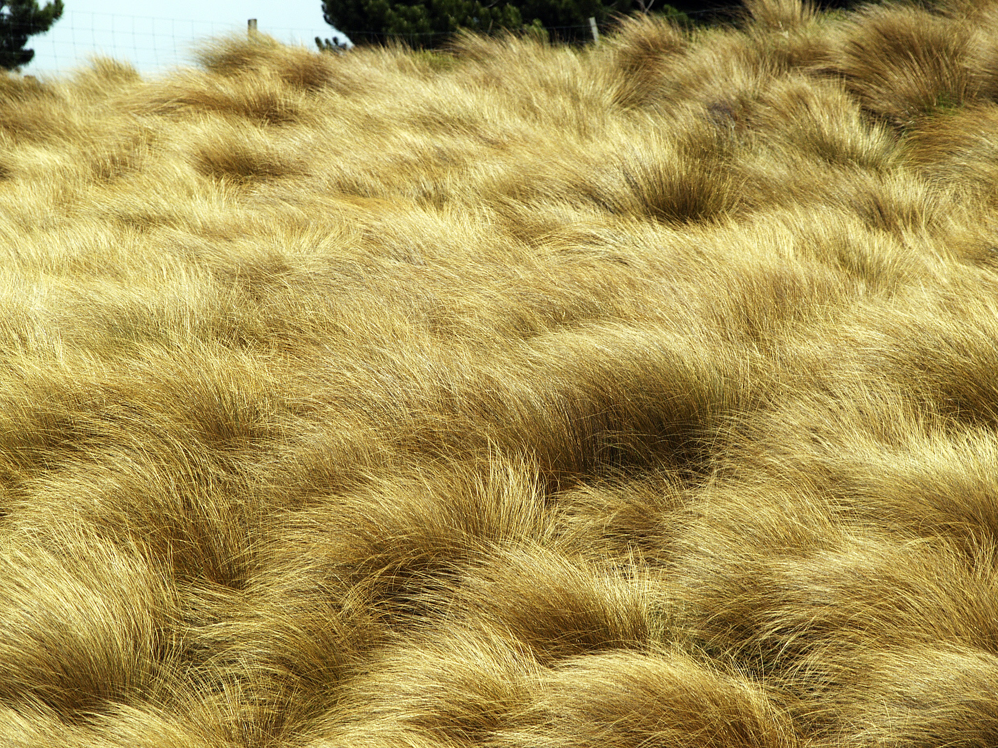 Tussock field at State Highway 94 between Mossburn and The Key, South Island, New Zealand